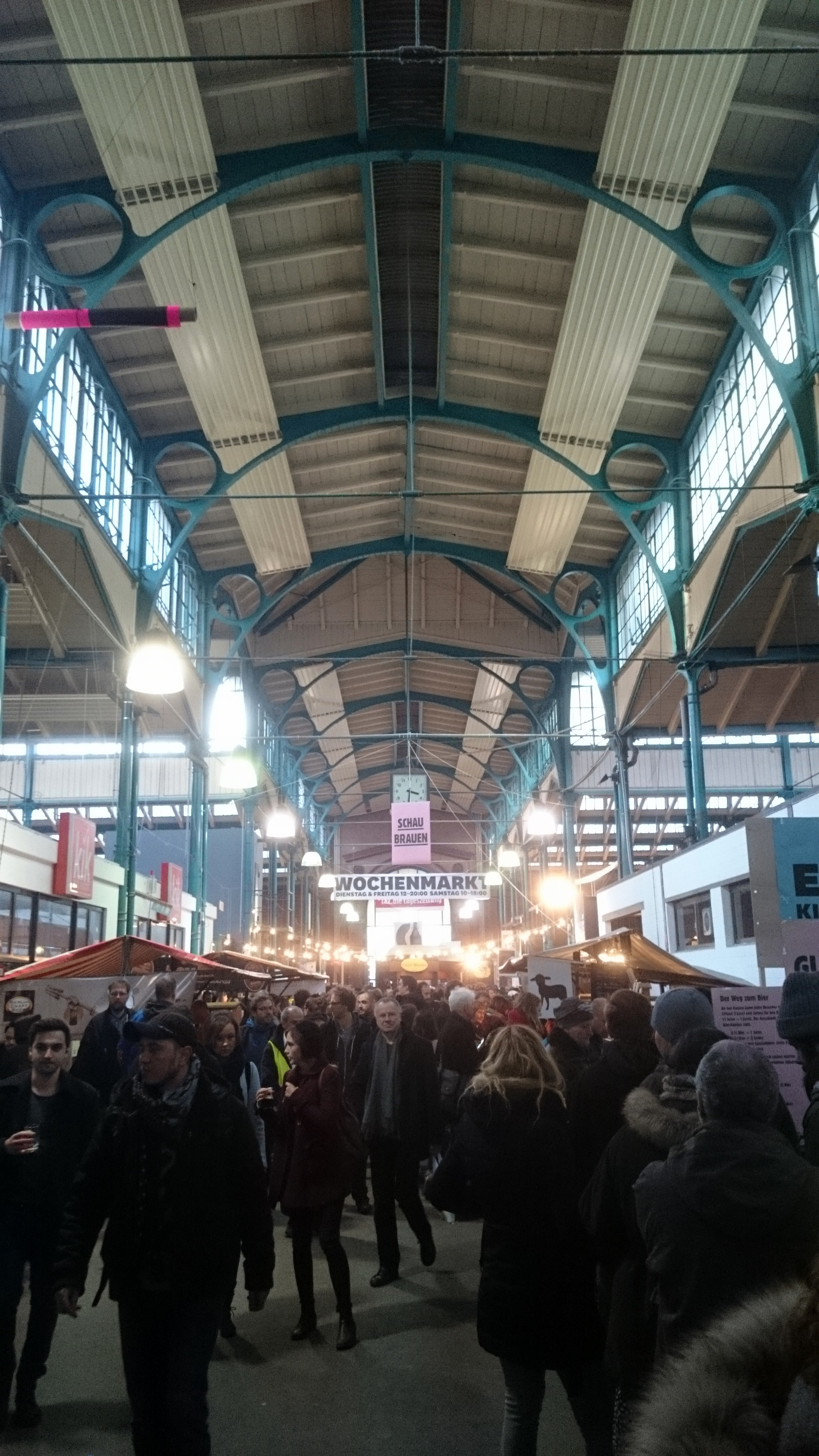 Berlin in spring